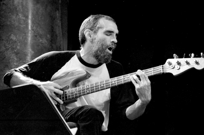 Steve Swallow at the Great American Music Hall, San Francisco CA 8/19/1981. Photo by Brian McMillen /